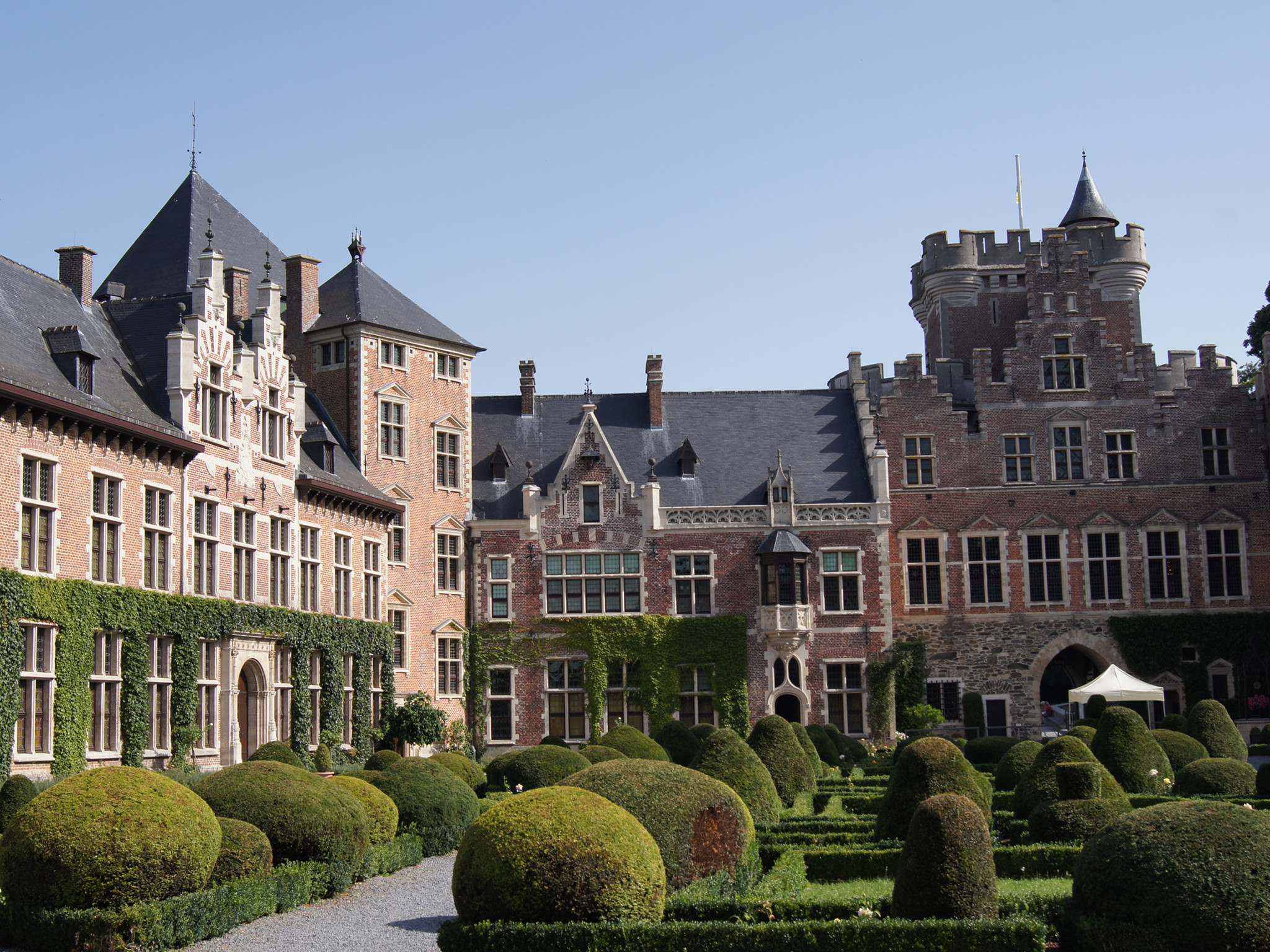 Gaasbeek castle